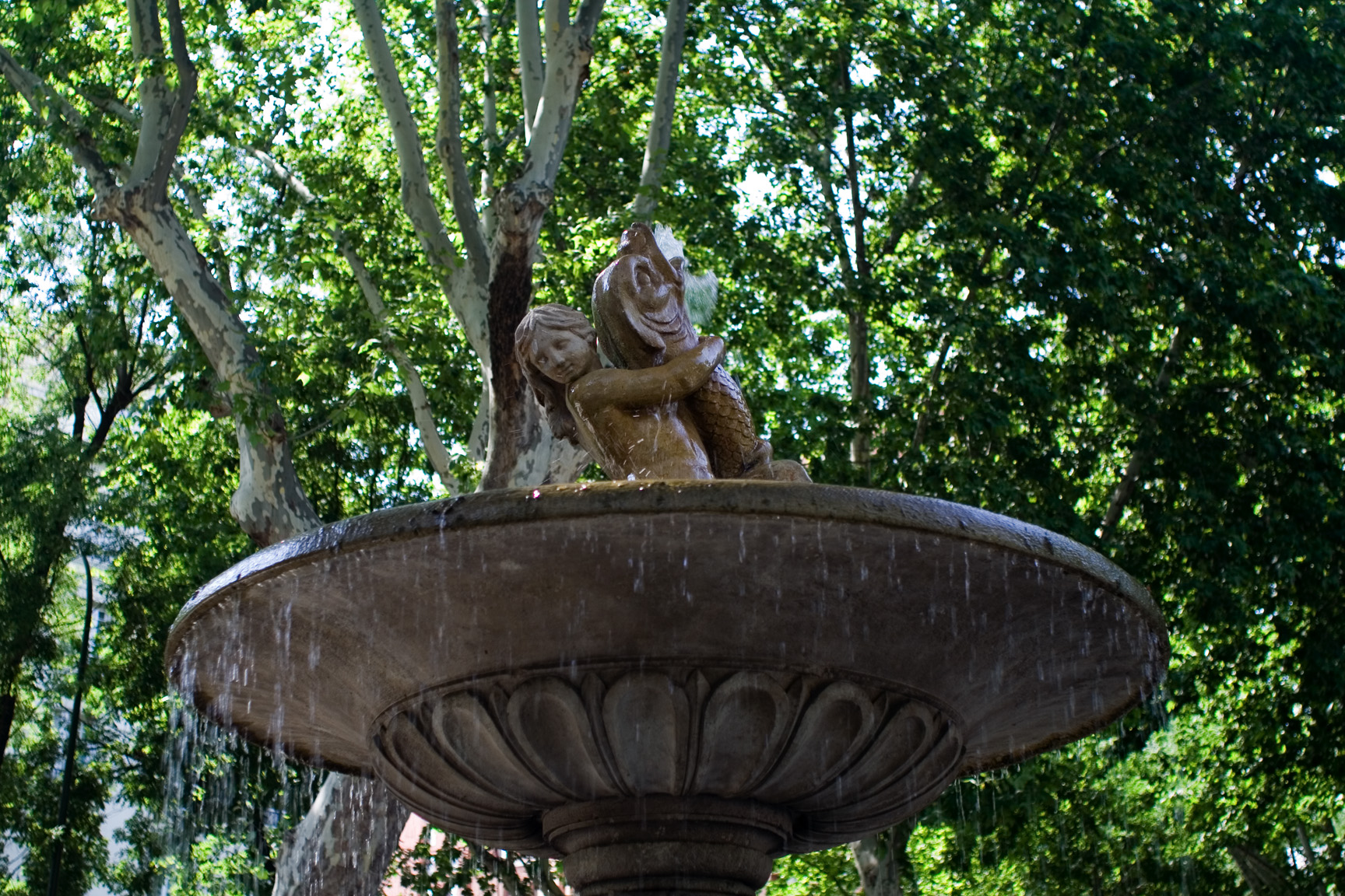 Partial view of one of the four fountains at the Paseo del Prado (boulevard) in Madrid (Spain), designed by Ventura Rodríguez (1717–1785) in 1781.